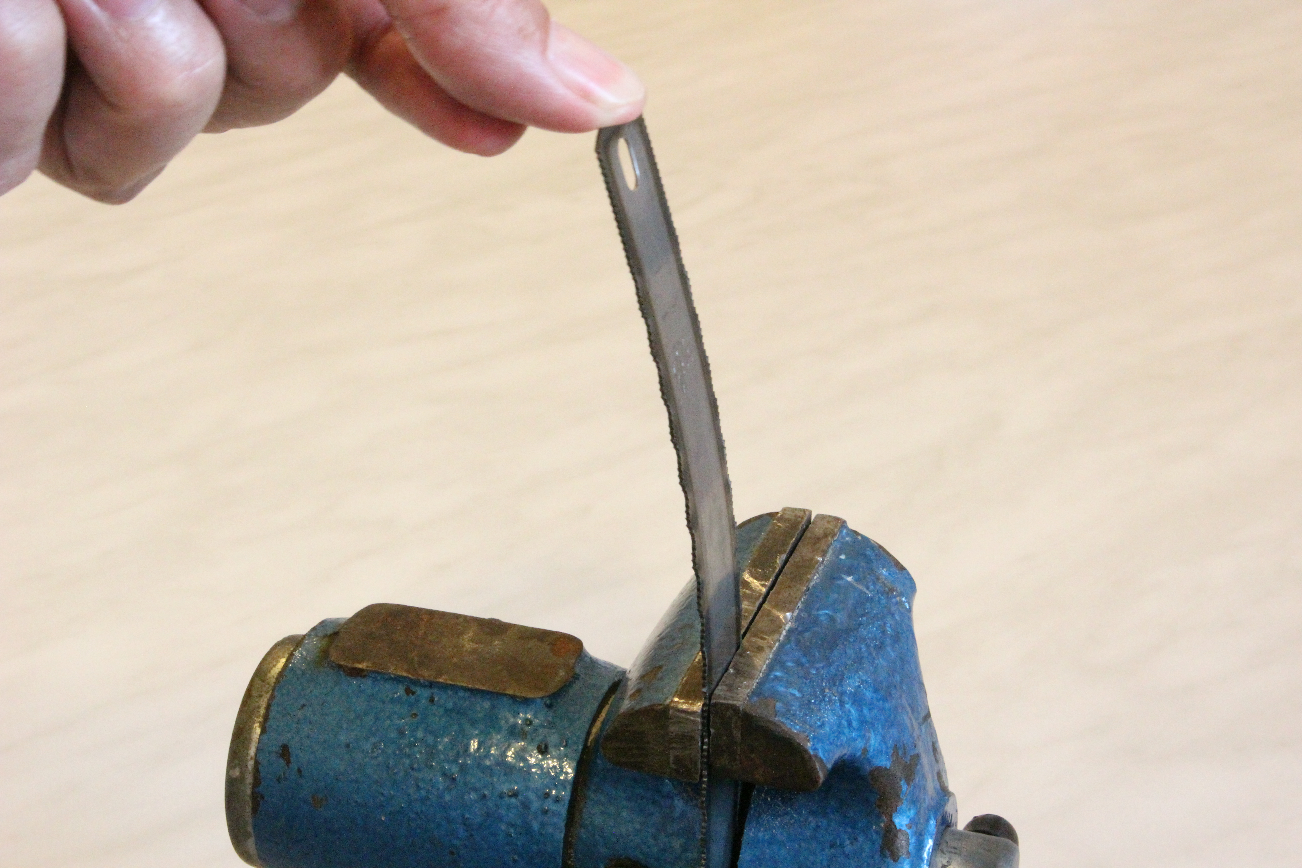 Saw blade caught in a vise, under tension.